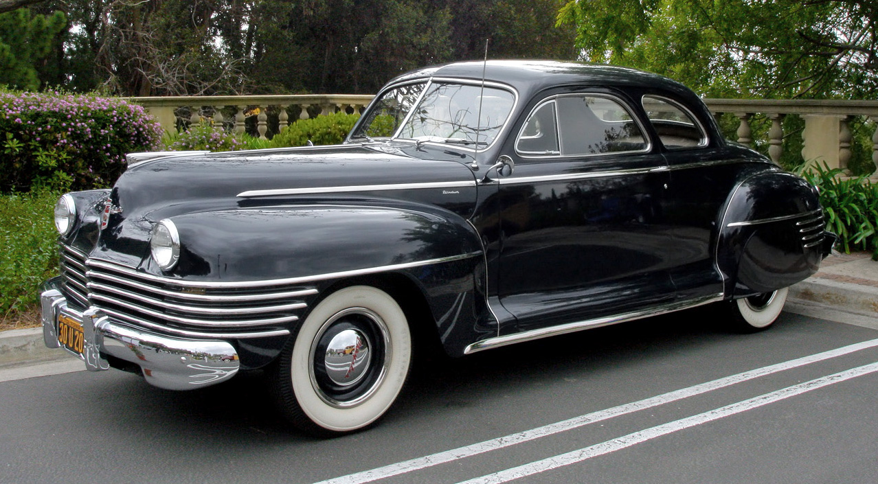 1942 Chrysler Windsor coupe (C34) at the Greystone Mansion Inaugural Concours d'Elegance, April 11, 2010